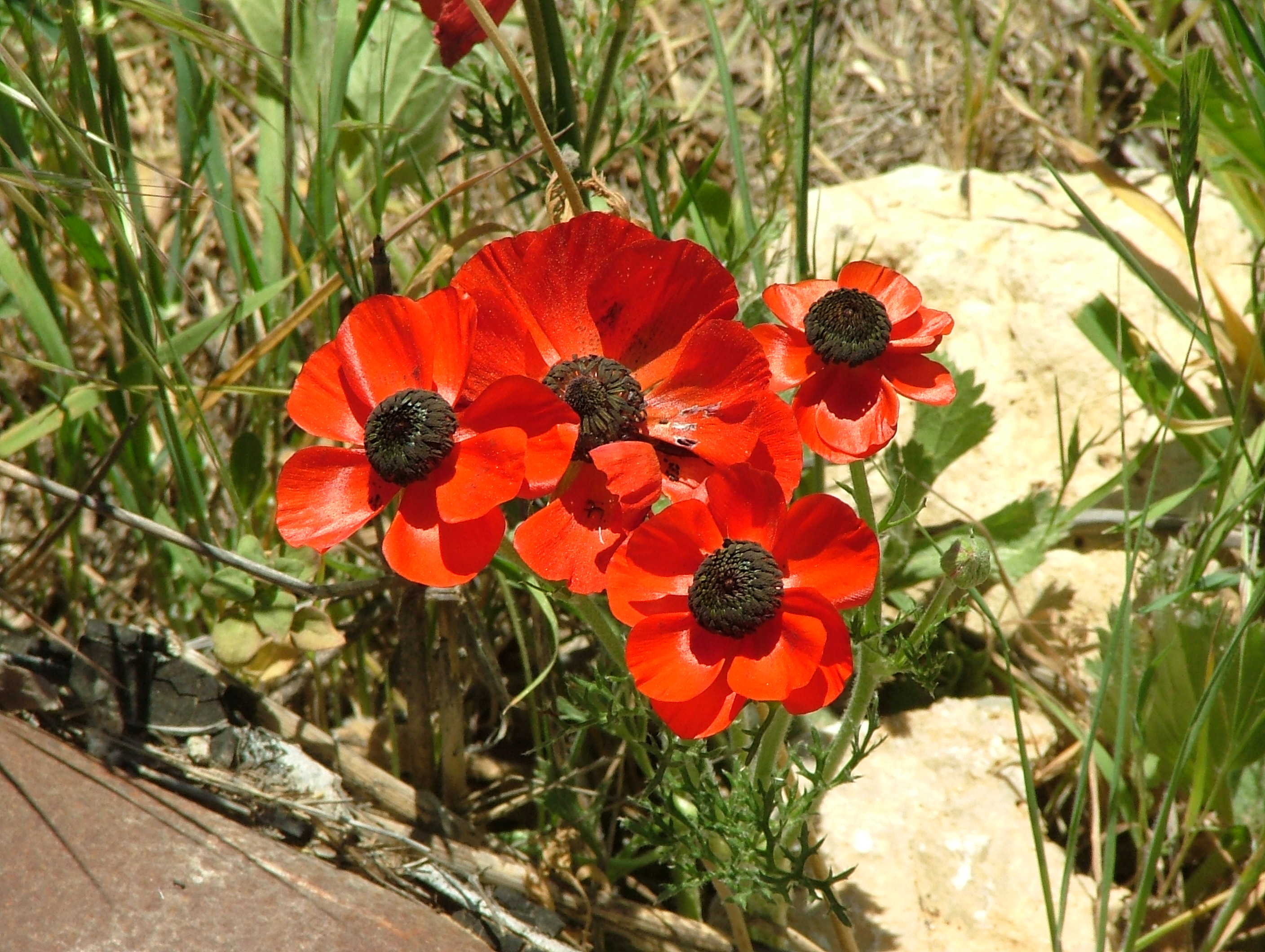 Persian Buttercups (Ranunculus asiaticus) at the Beit Zayit reservoir.